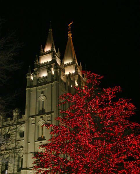 The Salt Lake Temple of The Church of Jesus Christ of Latter-day Saints at Christmas, Salt Lake City, Utah. Photo taken December 2005 by Brian Davis.